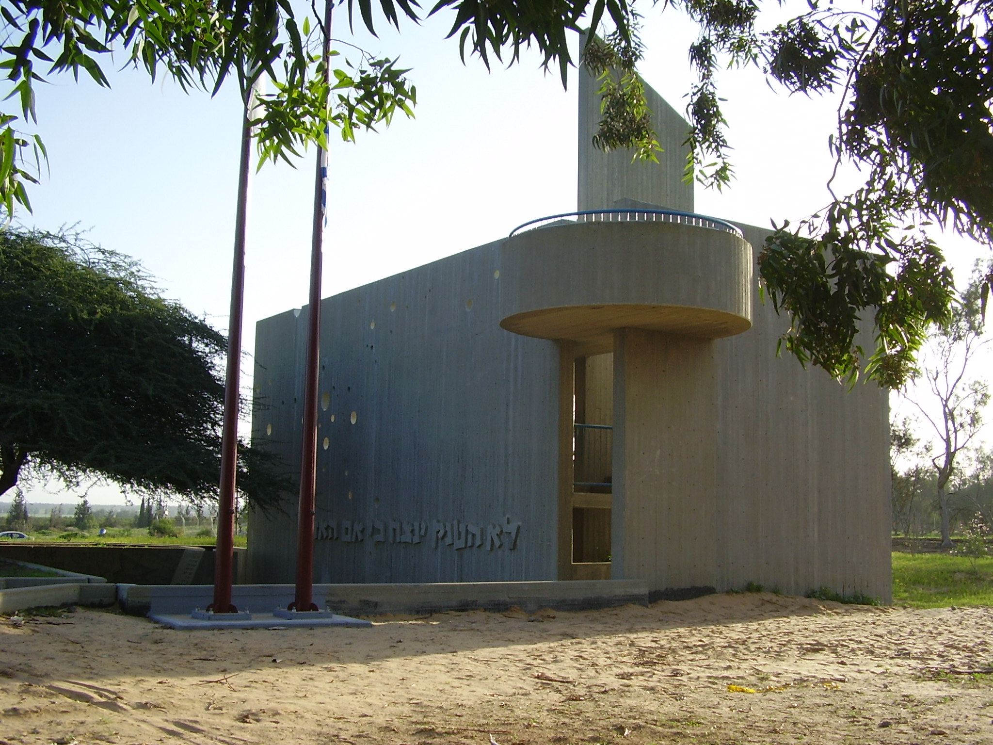 independence war memorial in old nirim (dangur)in the negev, israel אנדרטת נירים הישנה (דנגור) בנגב